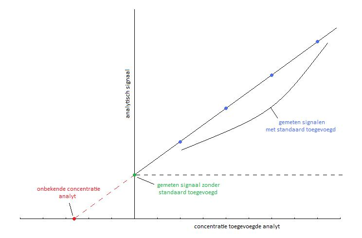 Standard addition graph